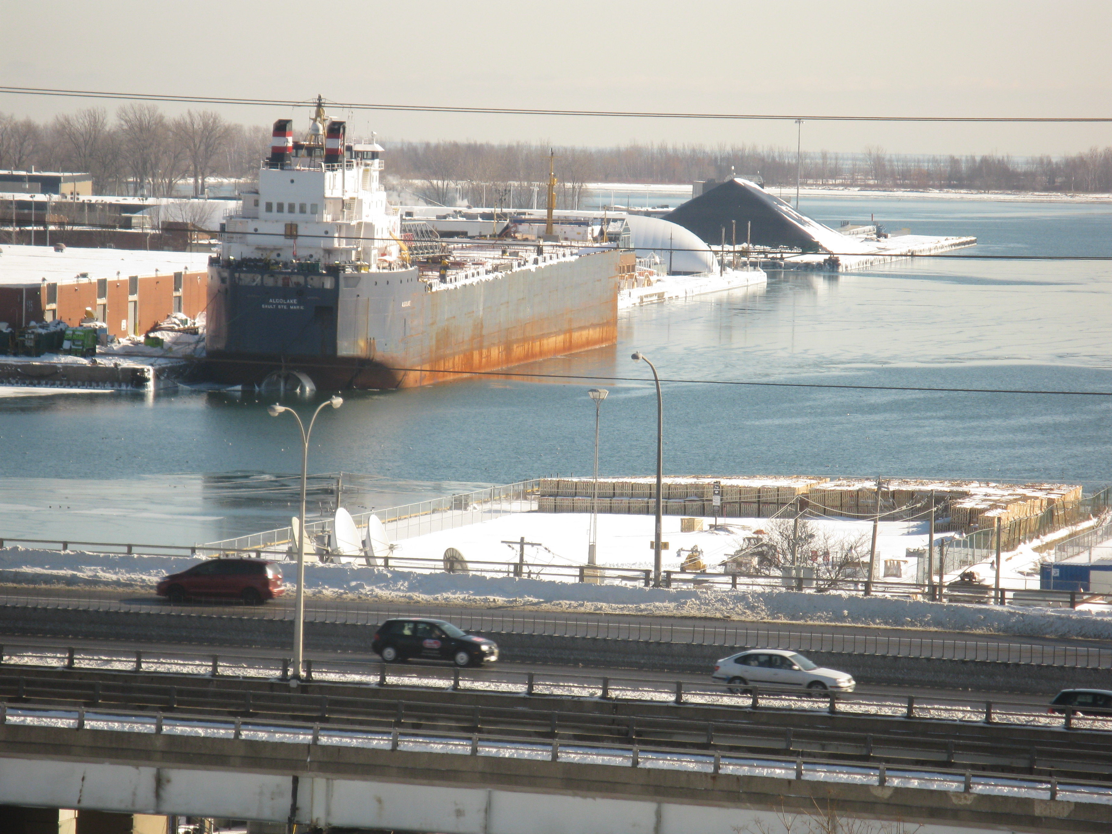 Closeup of Toronto harbour, from H, 2013 02 09 -a.JPG